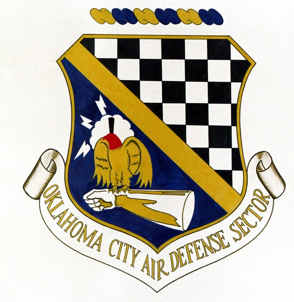 Emblem of the Oklahoma City Air Defense Sector (ADC)